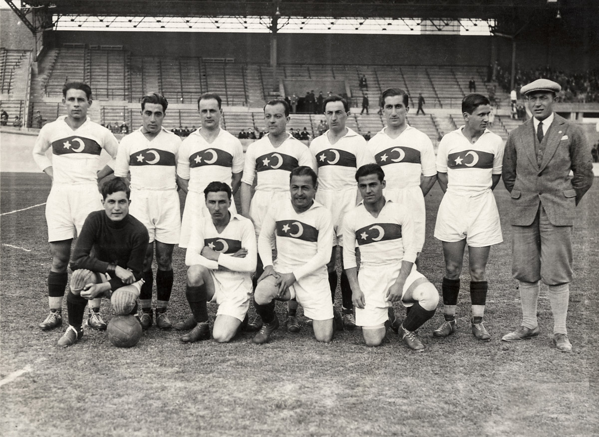 Turkey National Football Team squad before the Egypt-Turkey match in 1928 Summer Olympics. From left to right: Back row - Burhan (Atak), Kadri (Göktulga), İsmet (Uluğ), Alaattin (Baydar), Zeki Rıza (Sporel), Nihat (Bekdik), Mehmet (Leblebi), Tóth Béla Front row - Ulvi (Yenal), Cevat (Seyit), Bekir (Refet), Muslih (Peykoğlu)